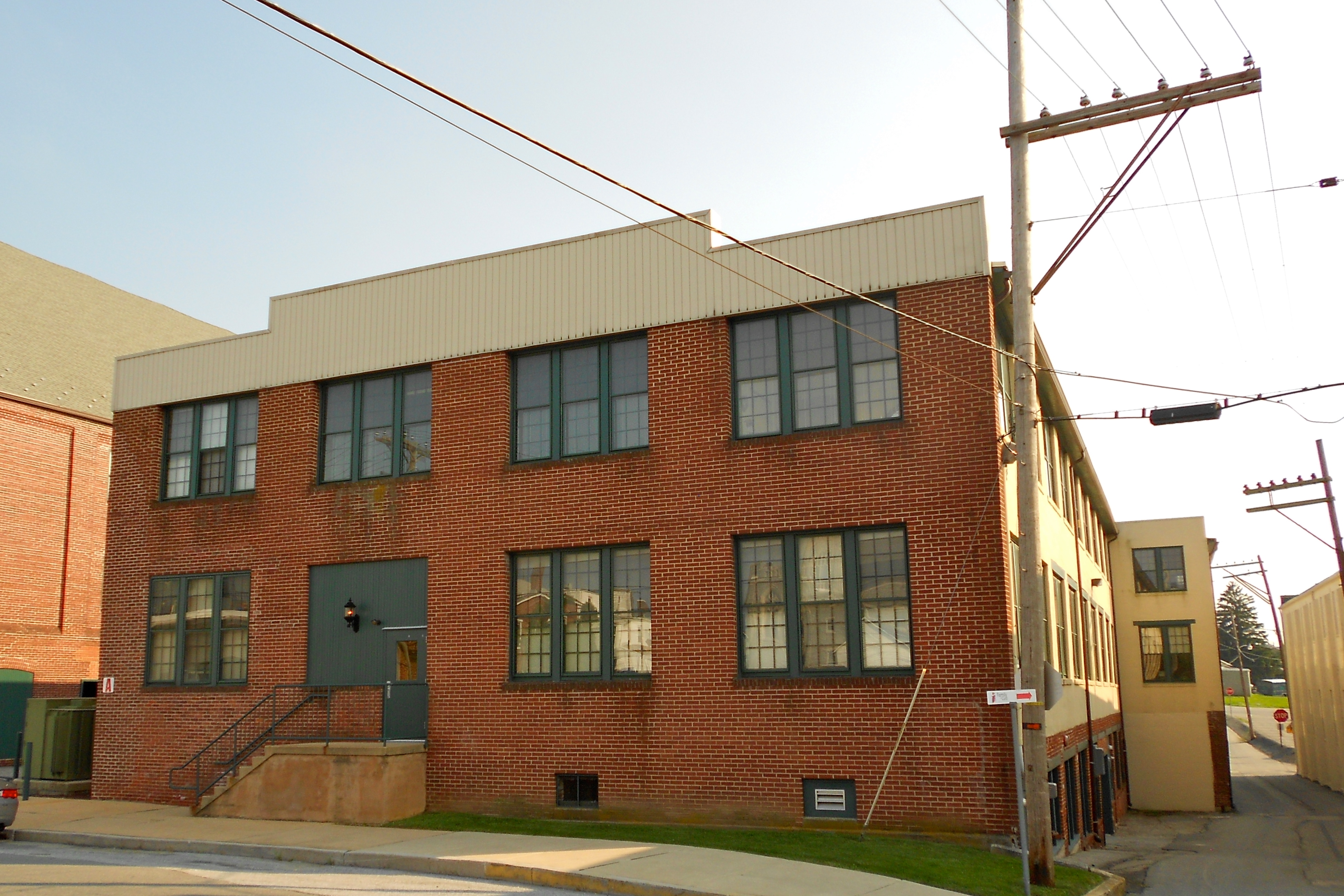 Consumers Cigar Box Company was listed on the NRHP on September 24, 1999. It bears the address of 121 First Avenue, Red Lion, York County, Pennsylvania in the official NRHP nomination form, but I consider that address to be questionable. This is an "L" shaped building, inside the L, on the corner of 1st and Charles Street is a much bigger building known as the Opera House, which has the address of 121 First Avenue. Part of the Opera House is in the background of this photo to the left.